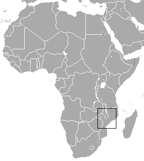 Malawi Bushbaby (Paragalago nyasae) range